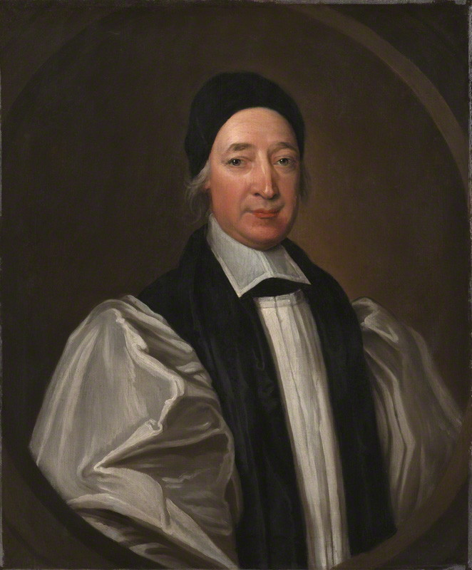 Thomas Ken, by F. Scheffer (floruit 1700-1710), given to the National Portrait Gallery, London in 1918. All images in this batch have a known author with unknown death date, but according to the NPG's website the author was floruit (known to be active) prior to 1859, and so is reasonably presumed dead by 1939.